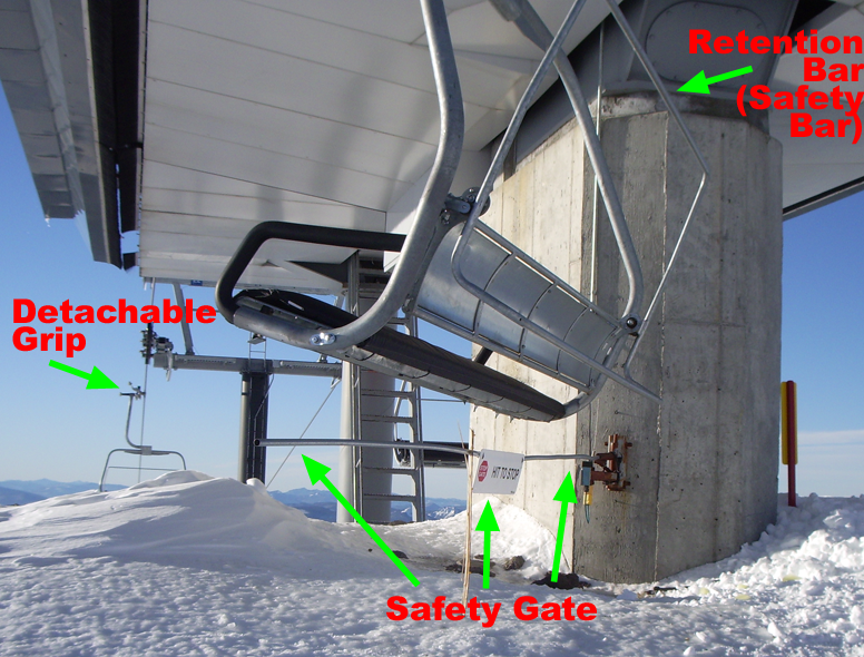 Detail of chairlift safety gate, retention bar and distant view of detachable grip at upper terminal